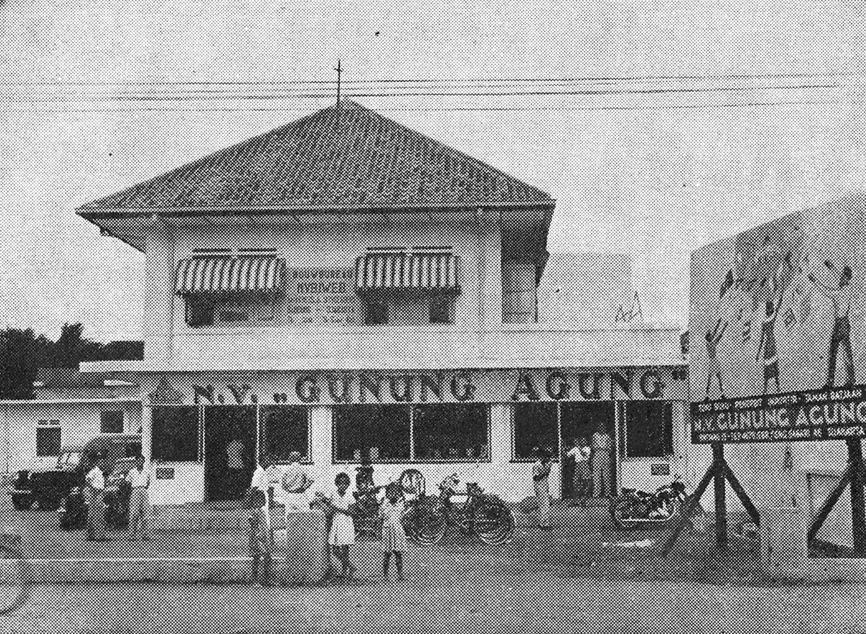 Gunung Agung book shop on Gunung Sahari Street